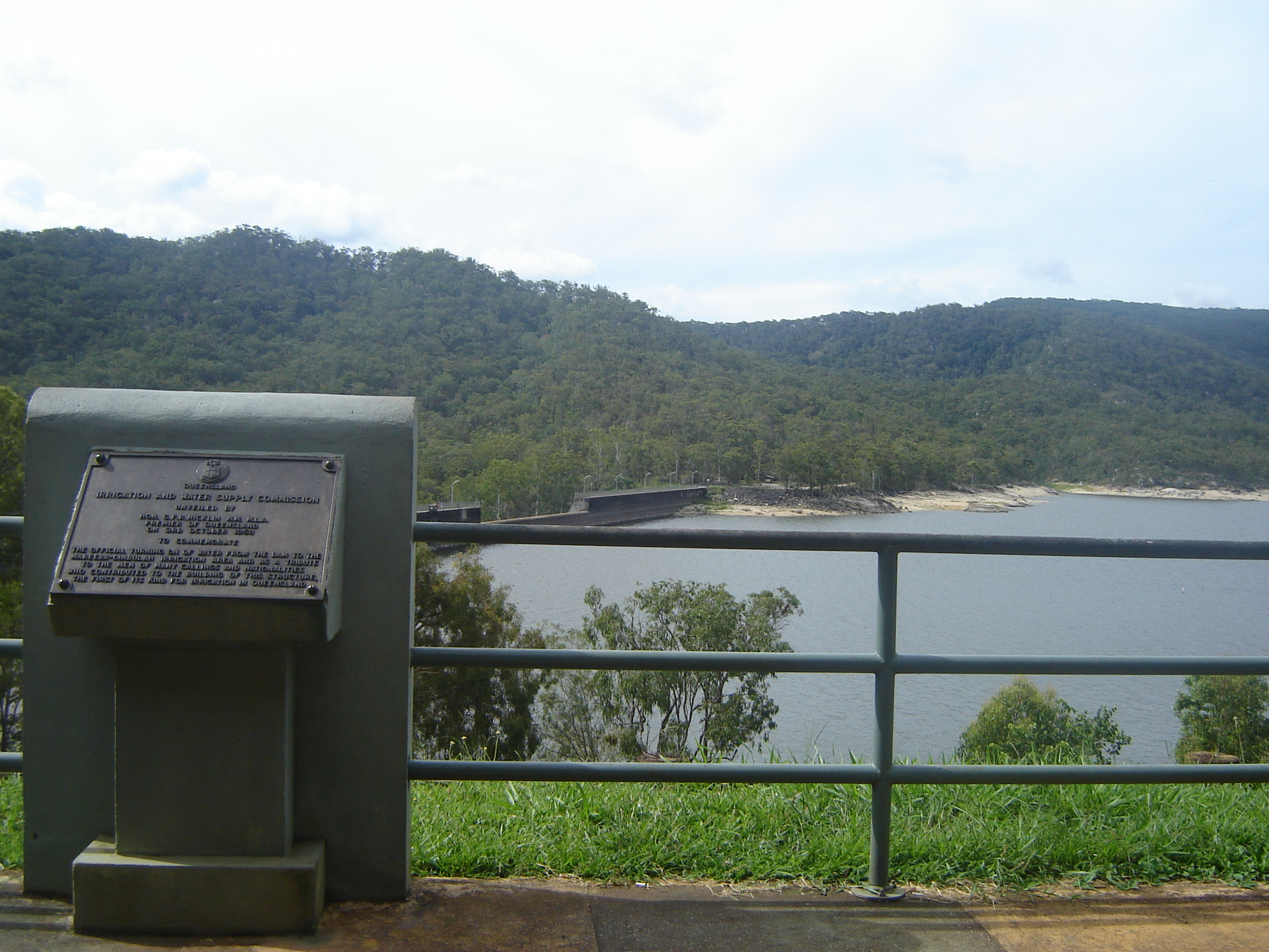 Tinaroo Dam.